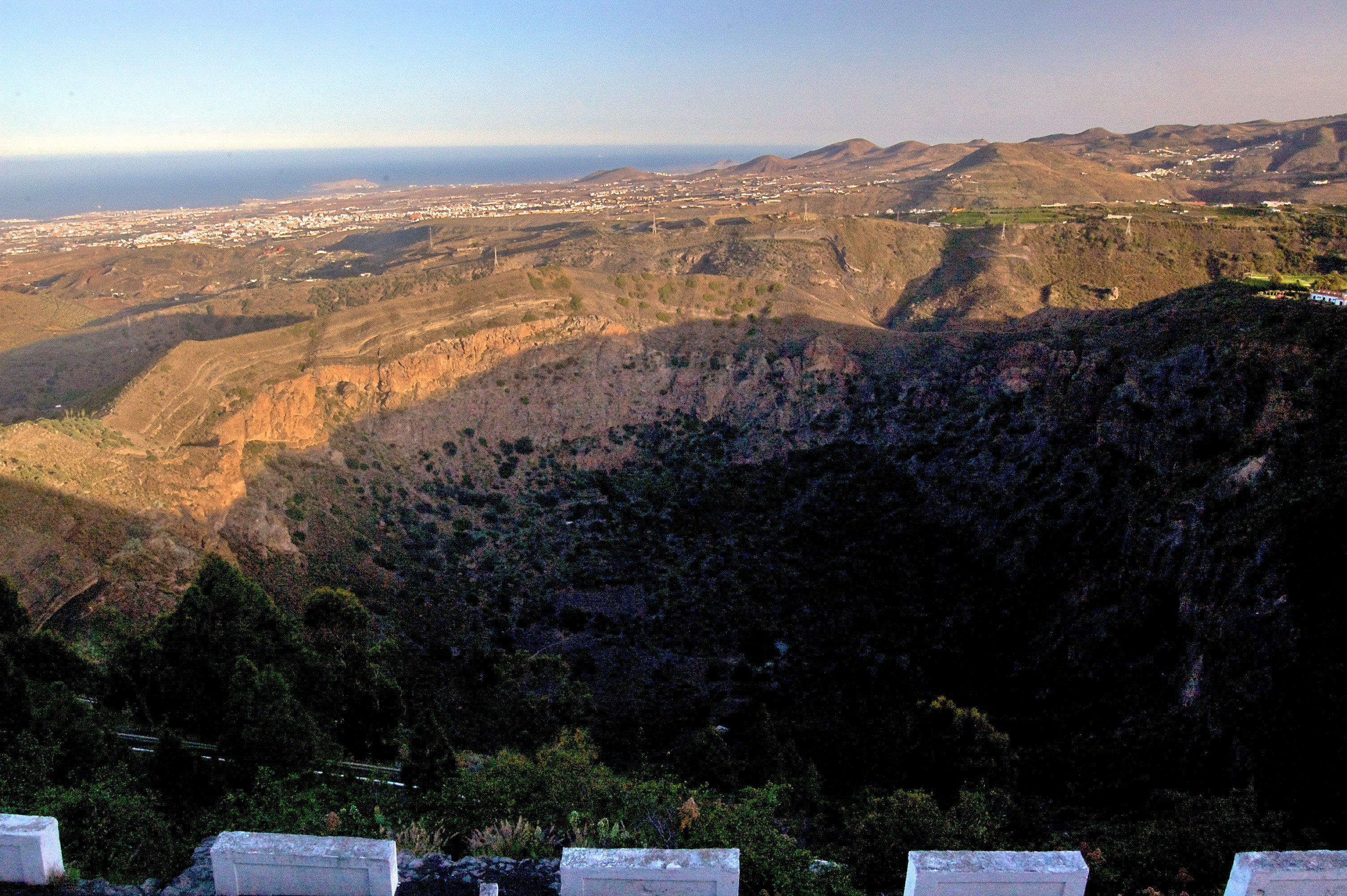 Caldera de Bandama